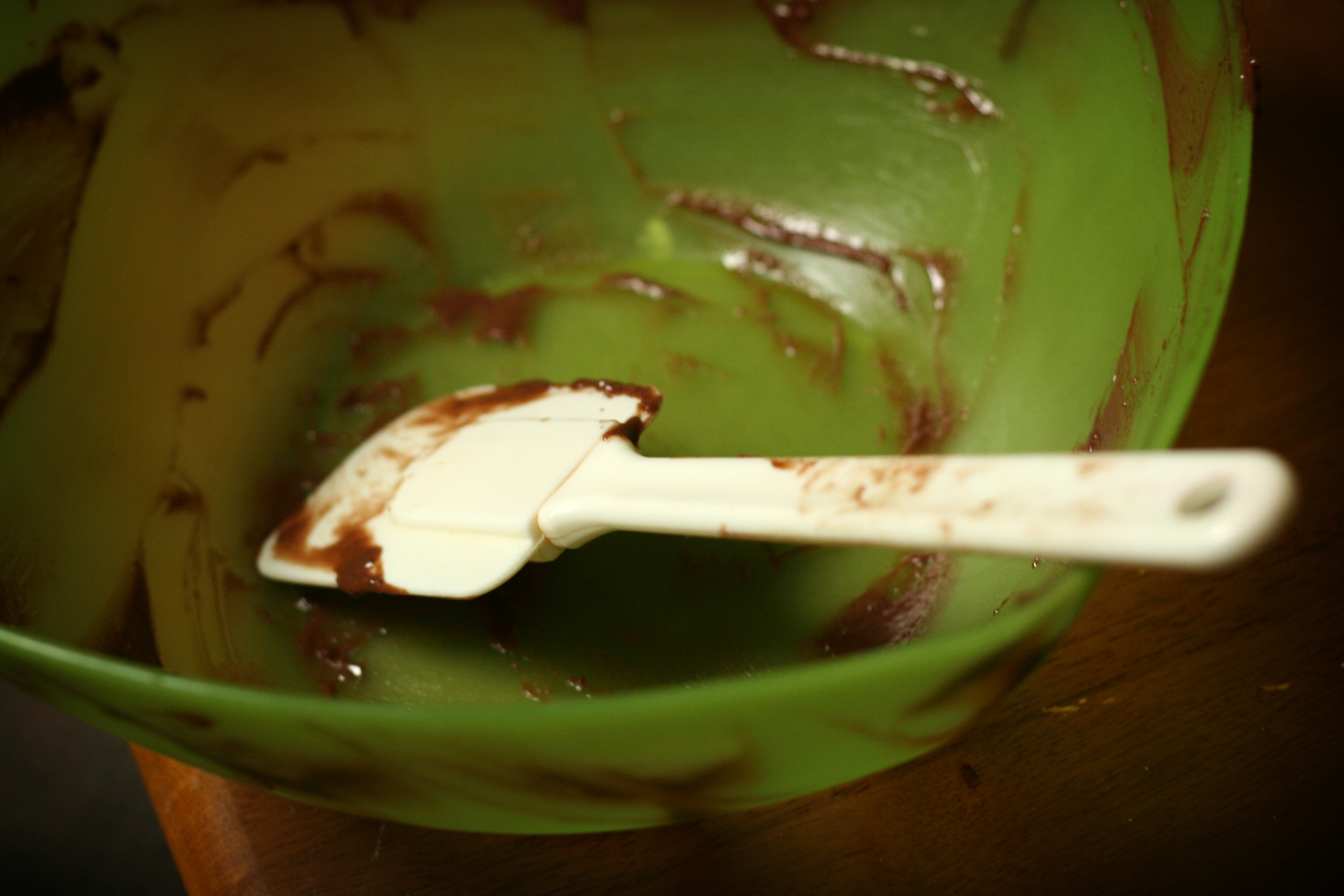 Used soft spatula